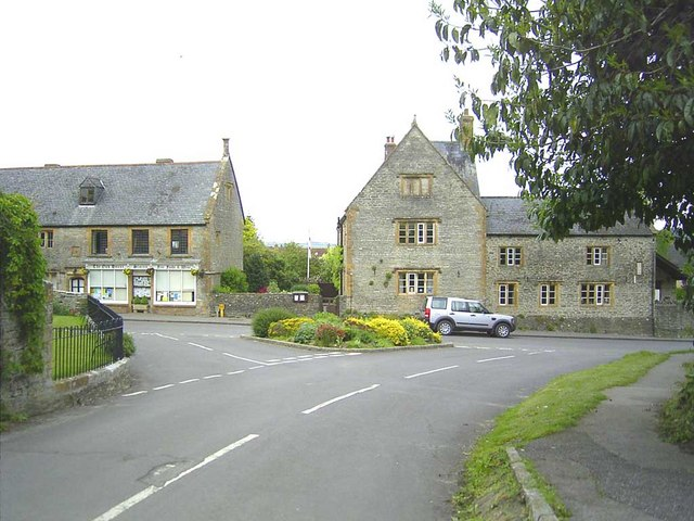 The Cross, Yetminster. Church Street meets the High Street at The Cross. The main building facing the camera was Manor Farm, no longer a working farm. The Oak House Stores, to the left, has been a shop for at least 150 years - in 1852 Thomas Hayward started his grocery and drapery business in these premises.